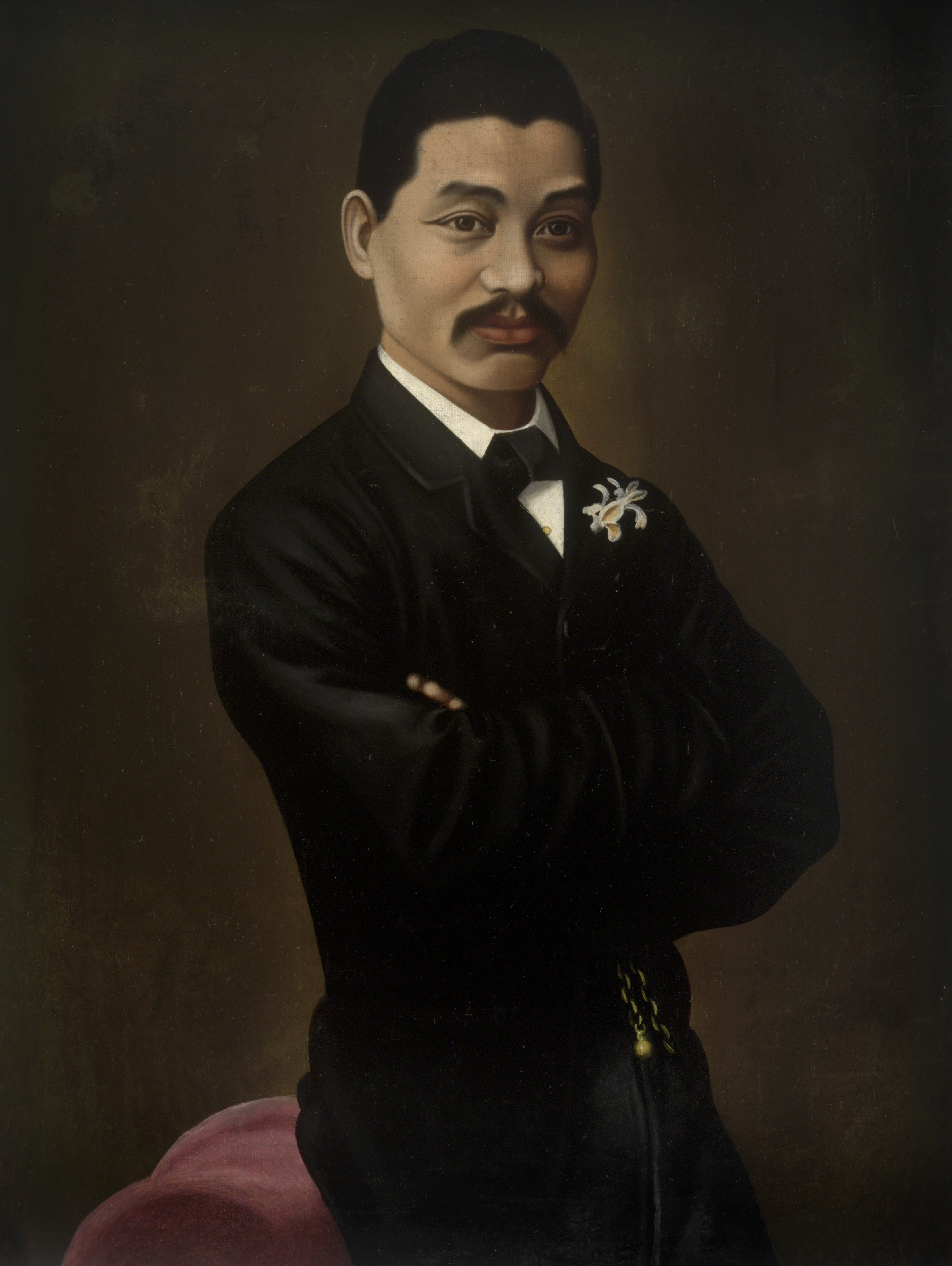 Quong Tart - oil portrait, oil on canvas, 61 x 45.5 cm